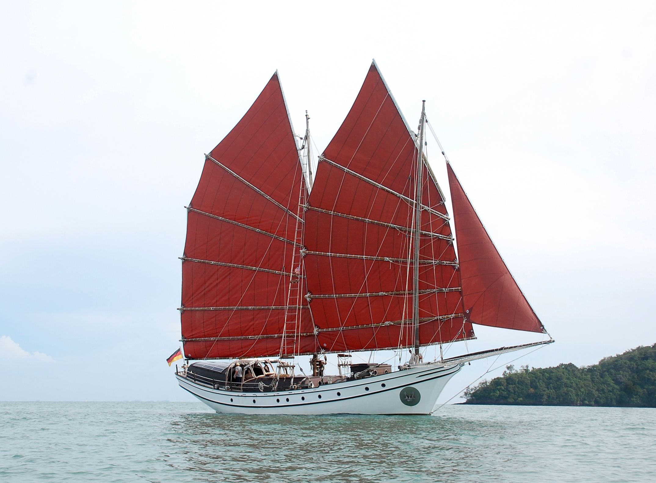 The Malay junk Naga Pelangi sailing in Langkawi, Malaysia